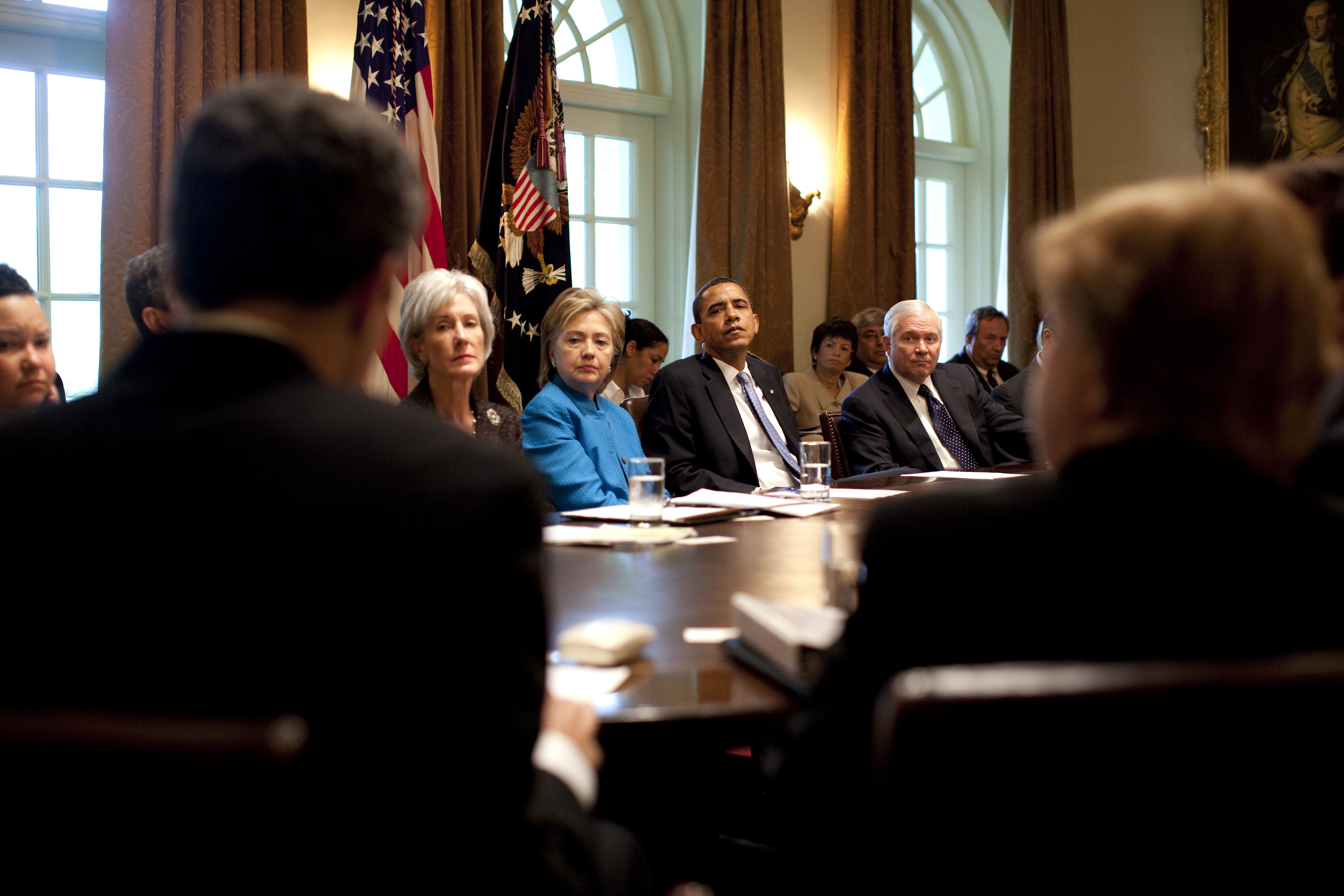 President Barack Obama holding a Homeland Security Council meeting about the swine flu outbreak in the Cabinet Room, while Dr. Richard Bresser speaks.